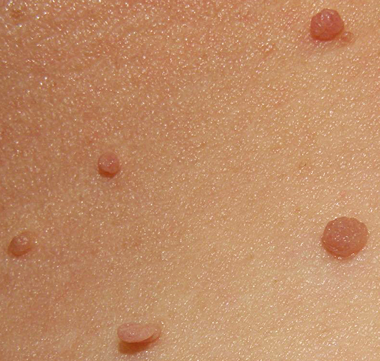 Several acrochordons in the skin of the lower neck. Soft consistency, the bottom acrochordon taking pedunculated shape